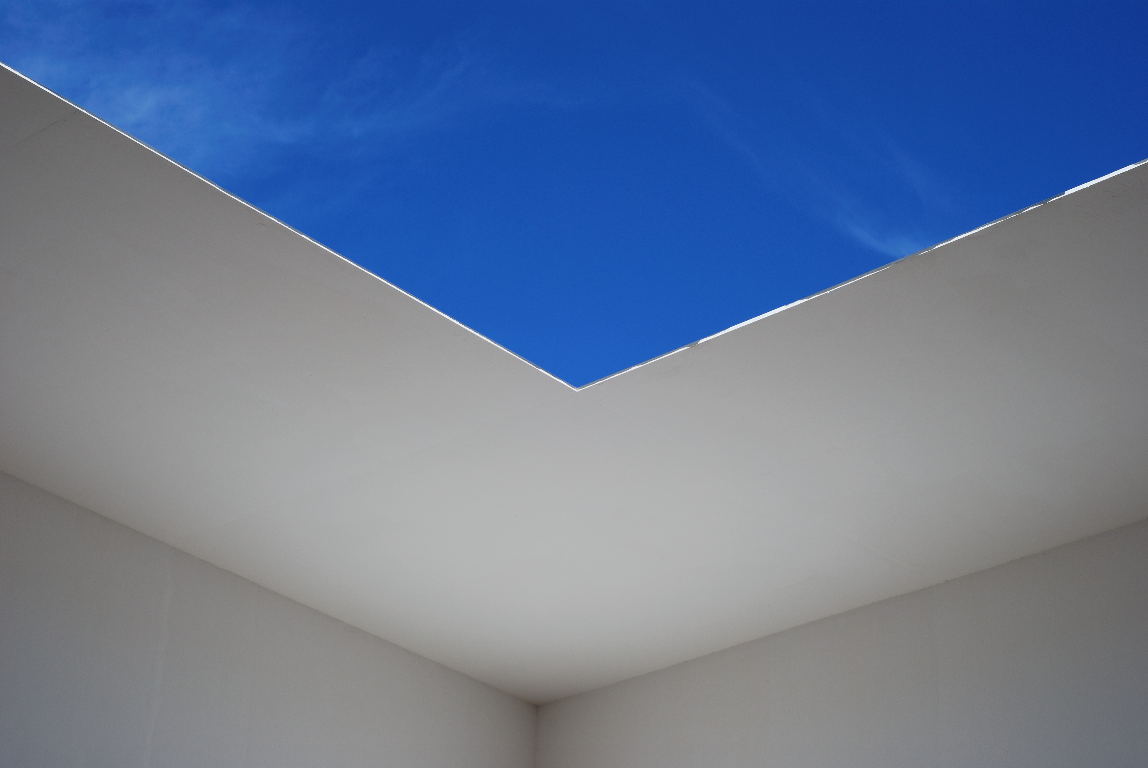 James Turrels "Space that sees" in the Israel Museum Jerusalem